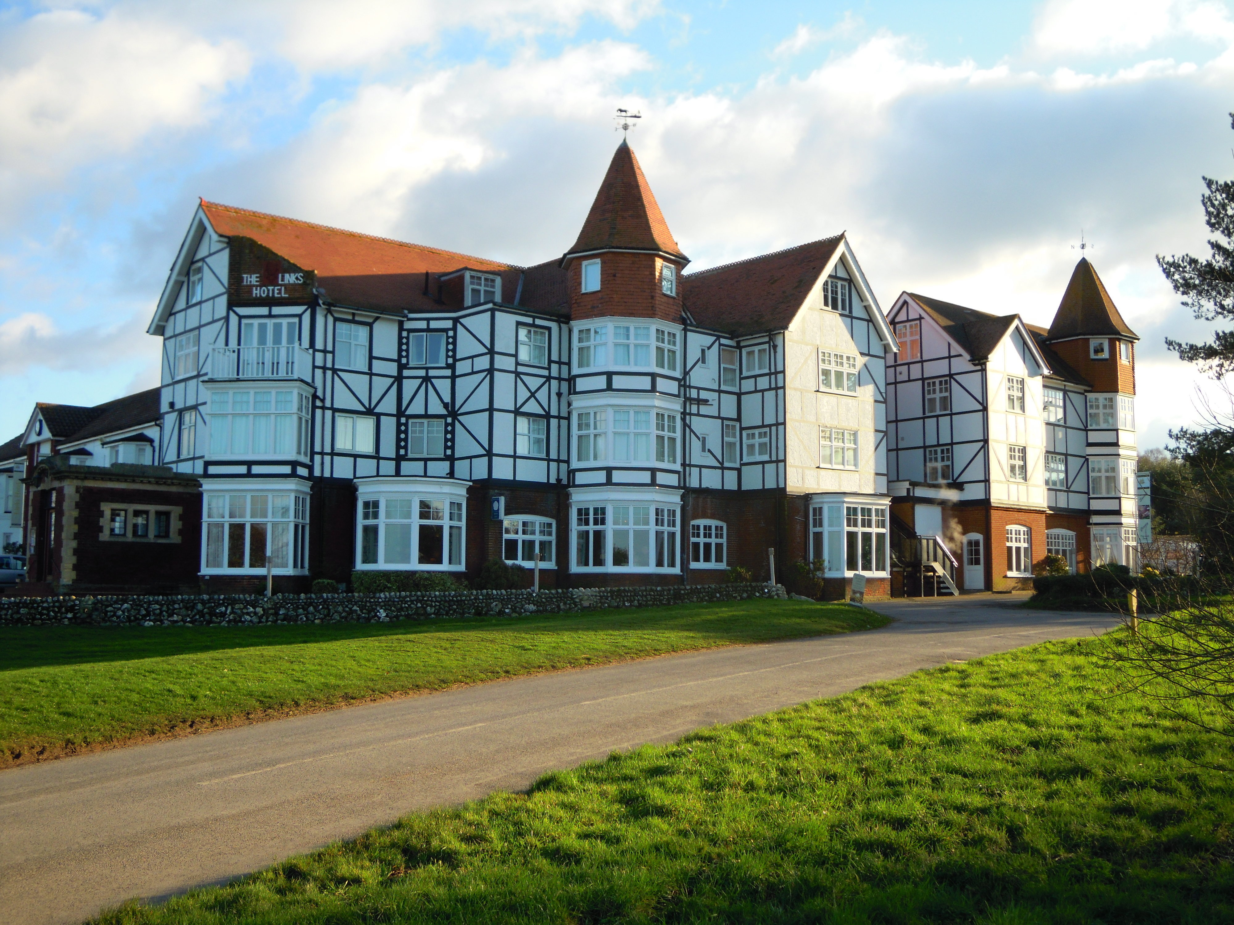 The Links Hotel and Country Club, West Runton, North Norfolk, England, United Kingdom.